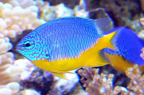 Crysiptera hemicyanea, female